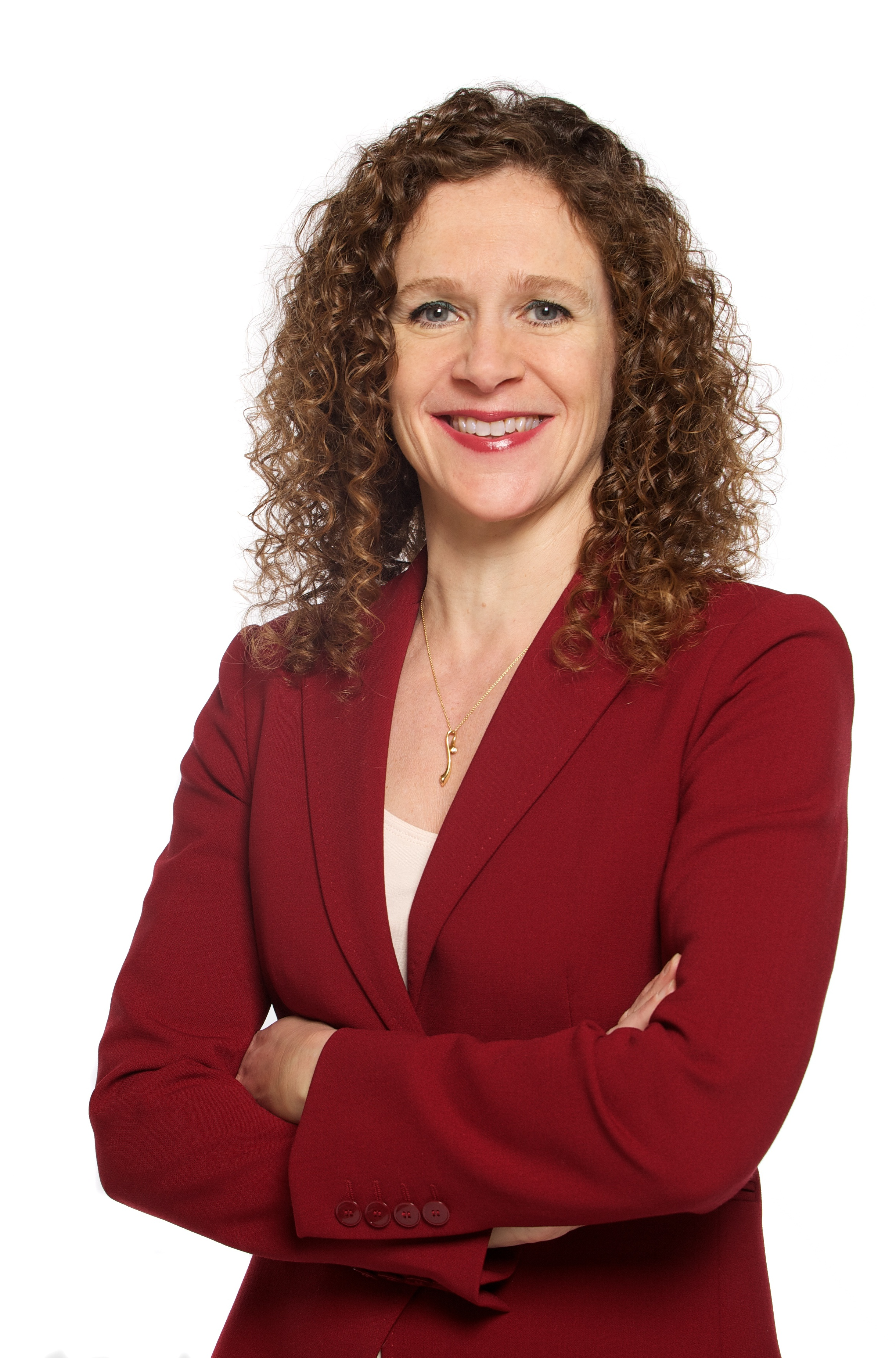 Sophie in 't Veld - Candidate for the European Parliament for D66. This portrait has been commissioned by the European office of D66 for the European elections in May 2014.